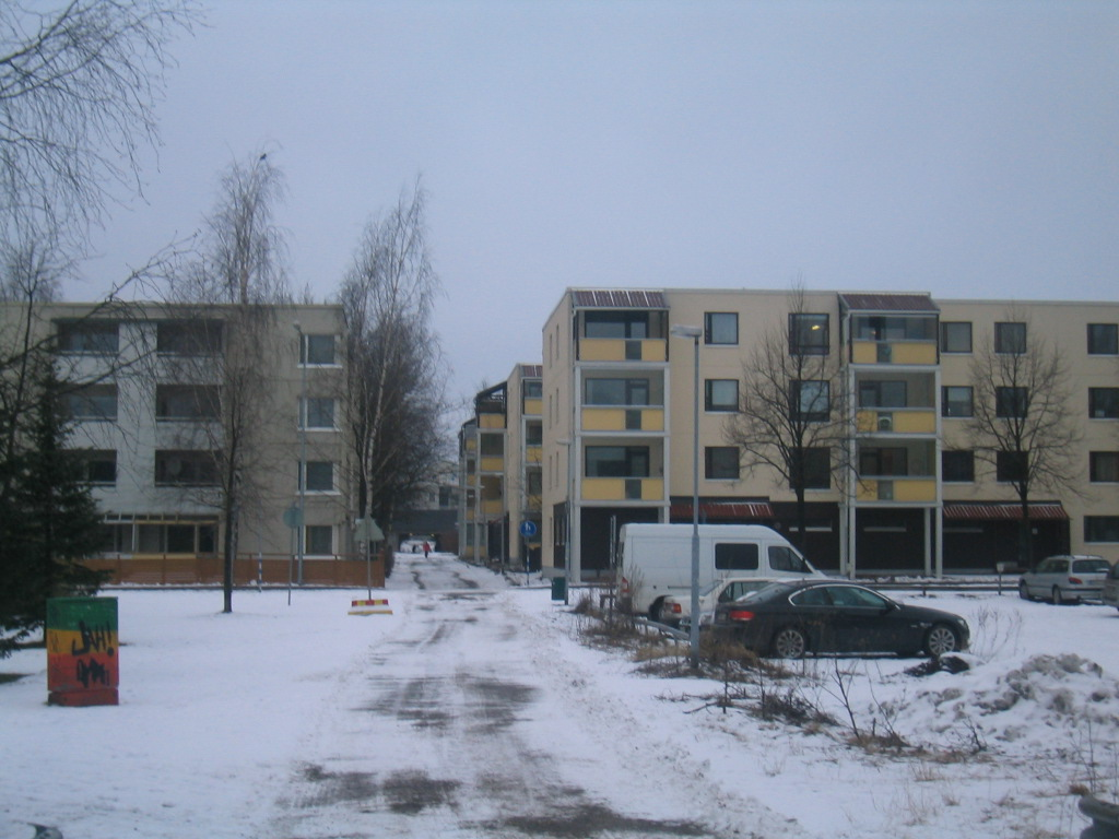 Savela in Helsinki, Finland